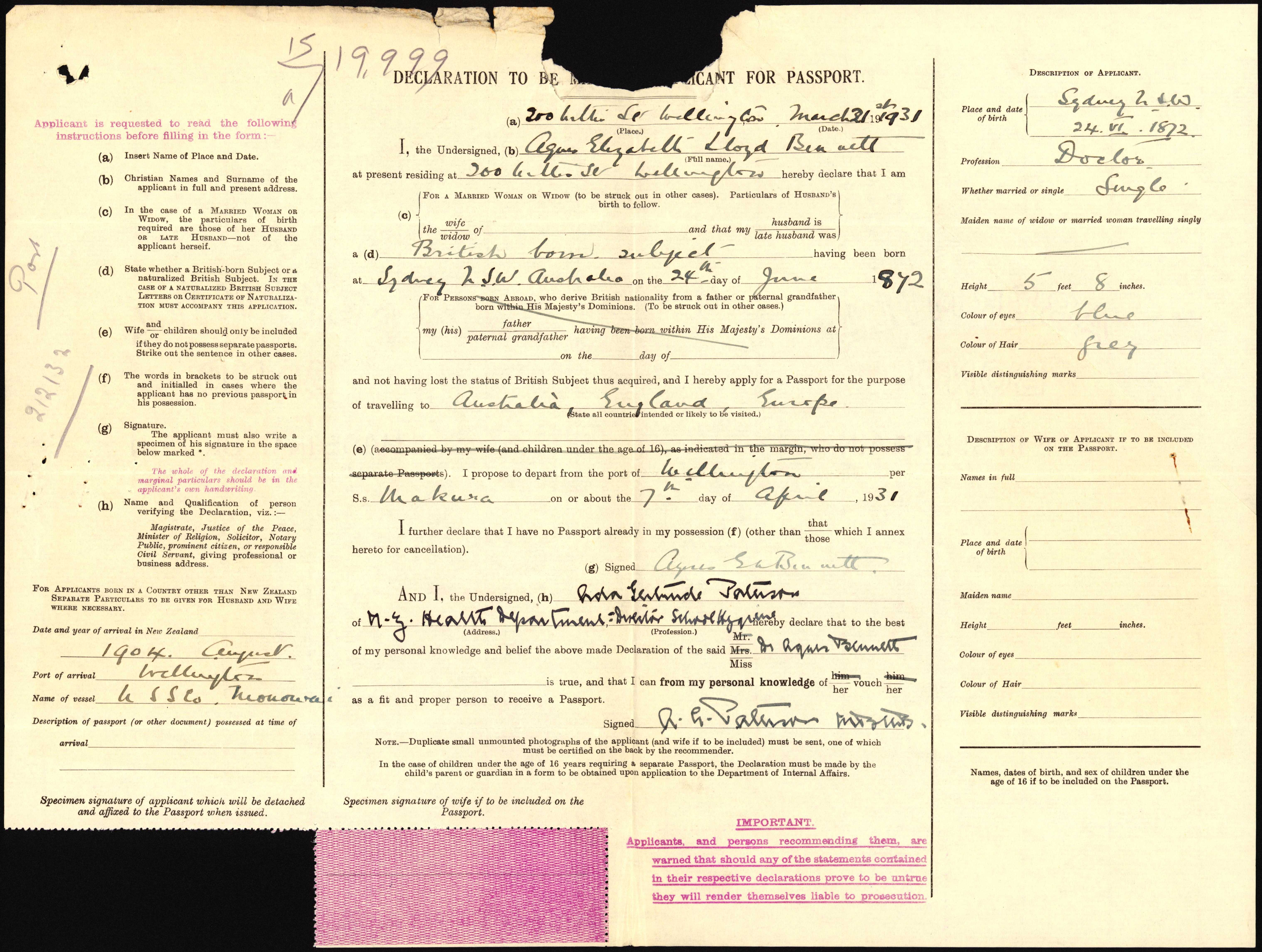 Passport application of Agnes Bennett (1931) Archives New Zealand Reference: ACGO 8333 IA1 1349 / 15/11/19999